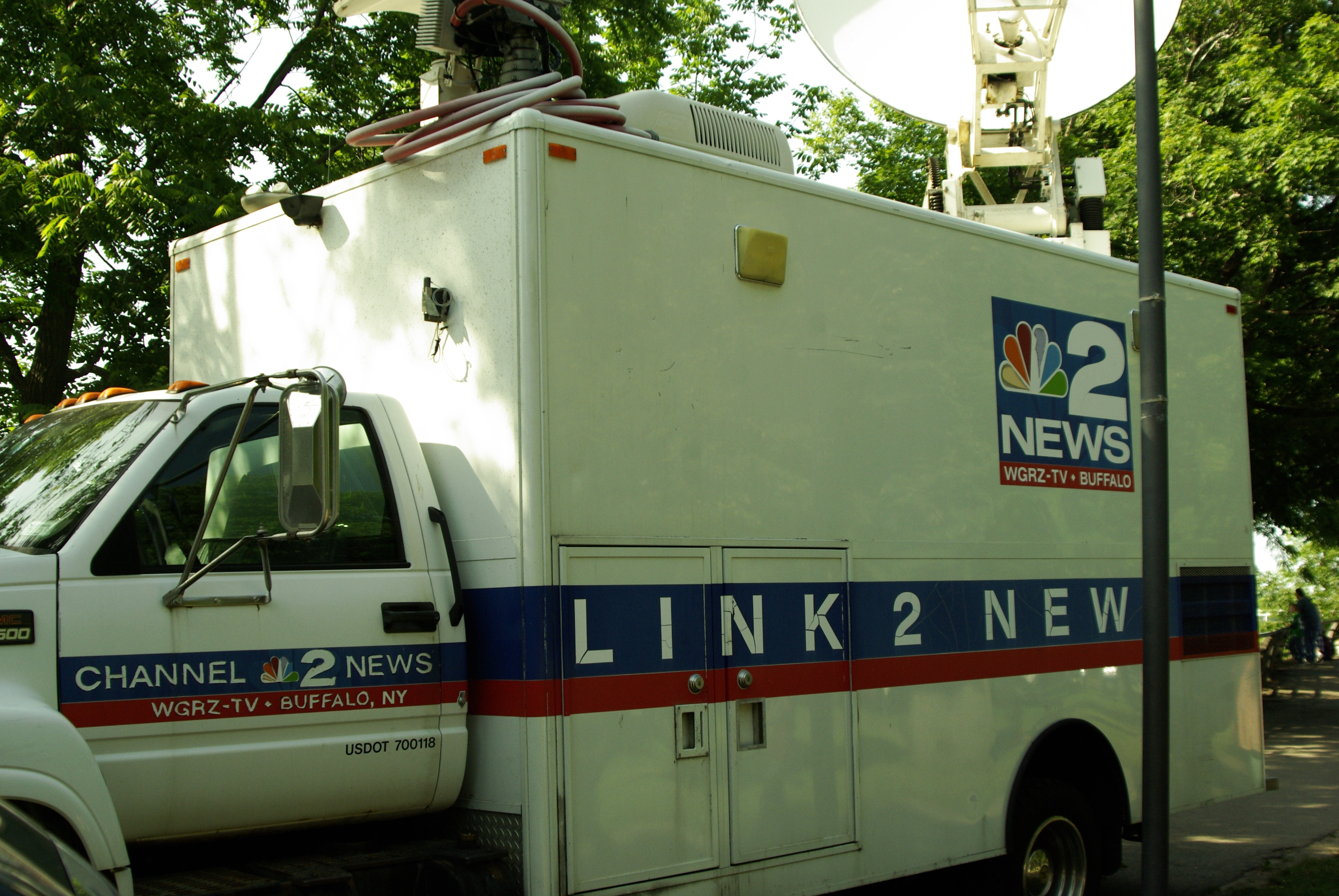 A WGRZ news van.